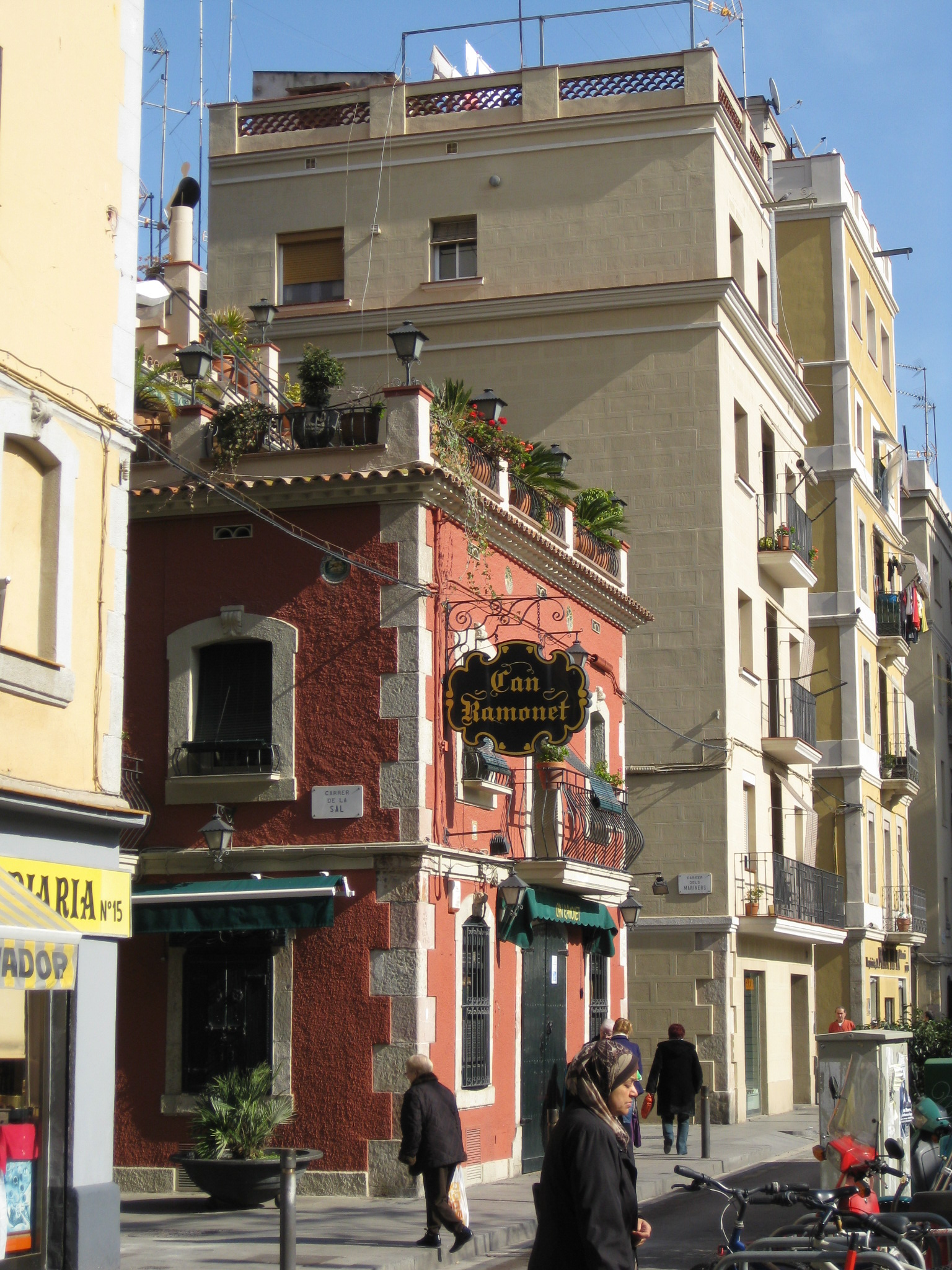 Barceloneta. Can Ramonet